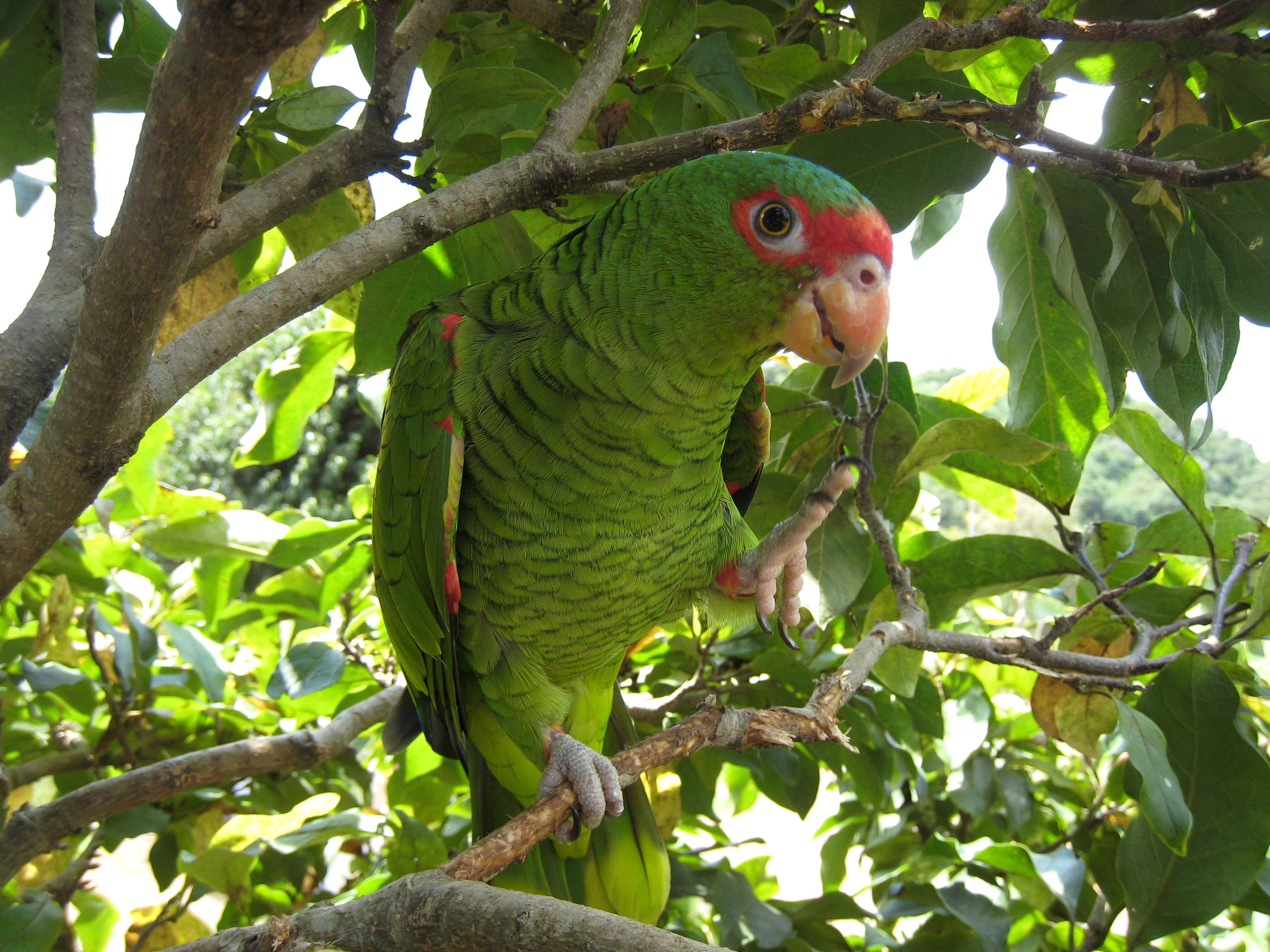 Red-spectacled Amazon that is kept as a pet in Caxias do Sul, Rio Grande do Sul, Brazil.